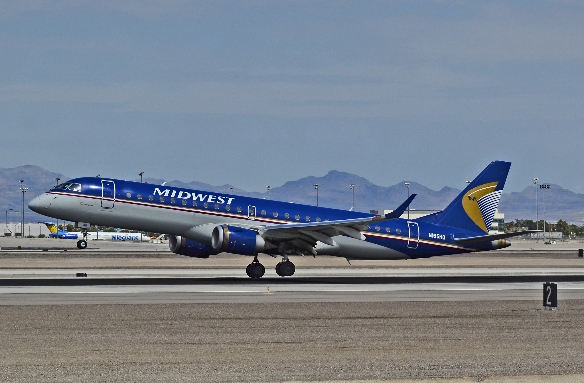 McCarran International Airport (KLAS) Las Vegas, Nevada TDelCoro September 12, 2013